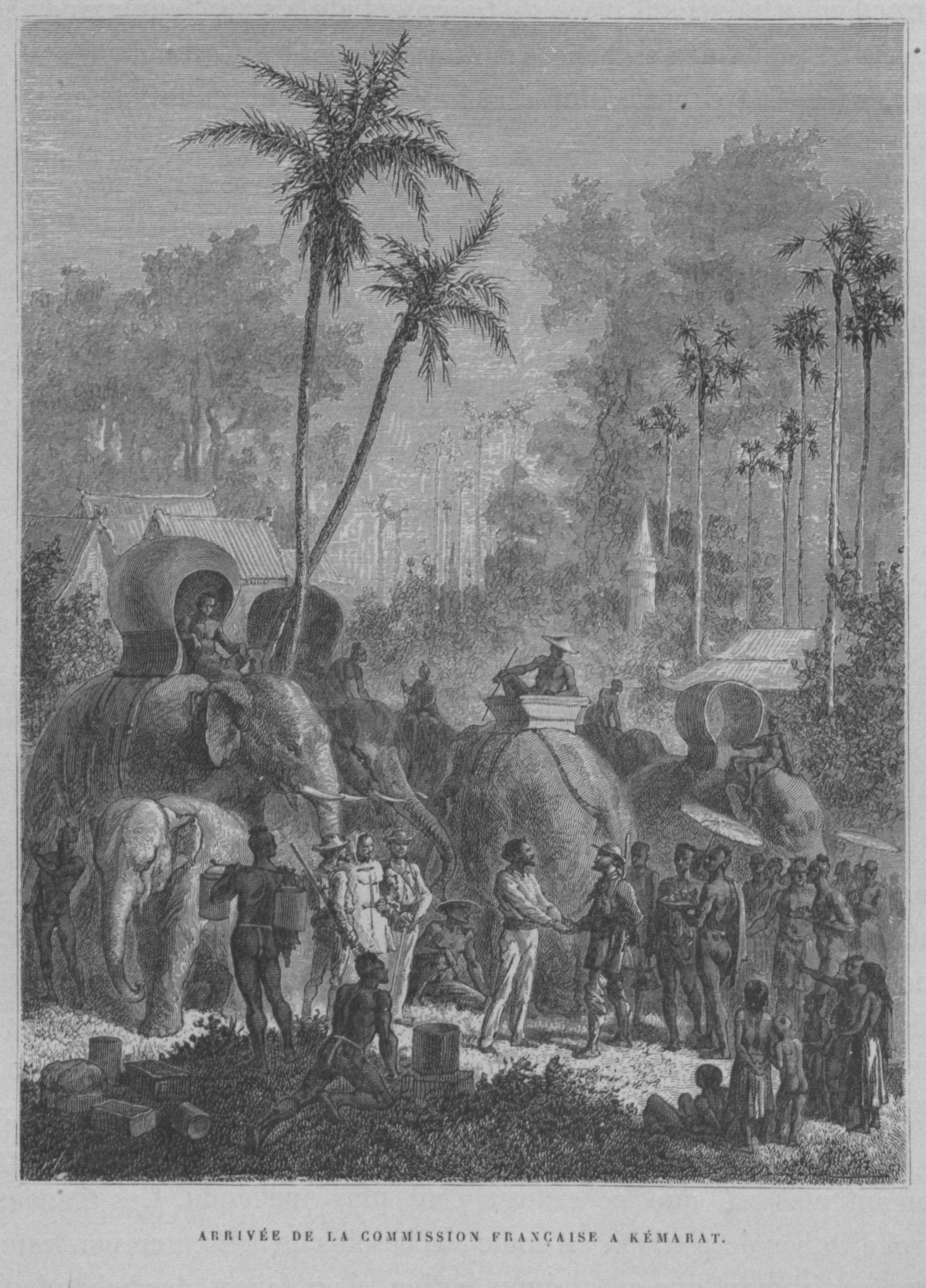 Voyage d'exploration en Indo-Chine (1873, Francis Garnier)